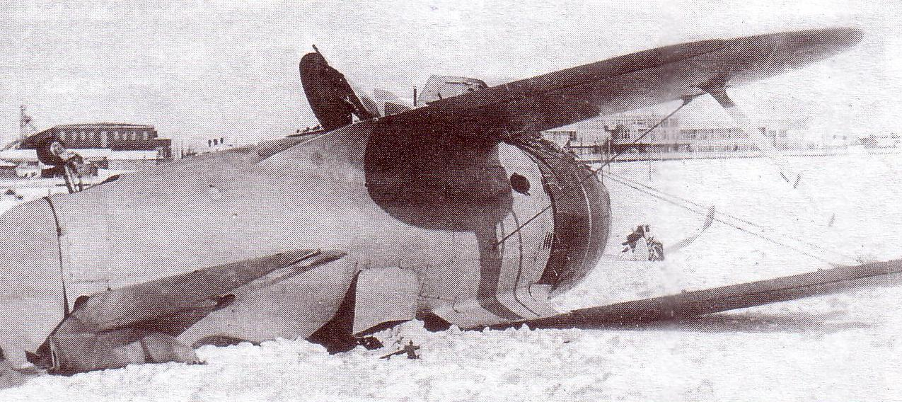 The accident I-190 Feb 13, 1941